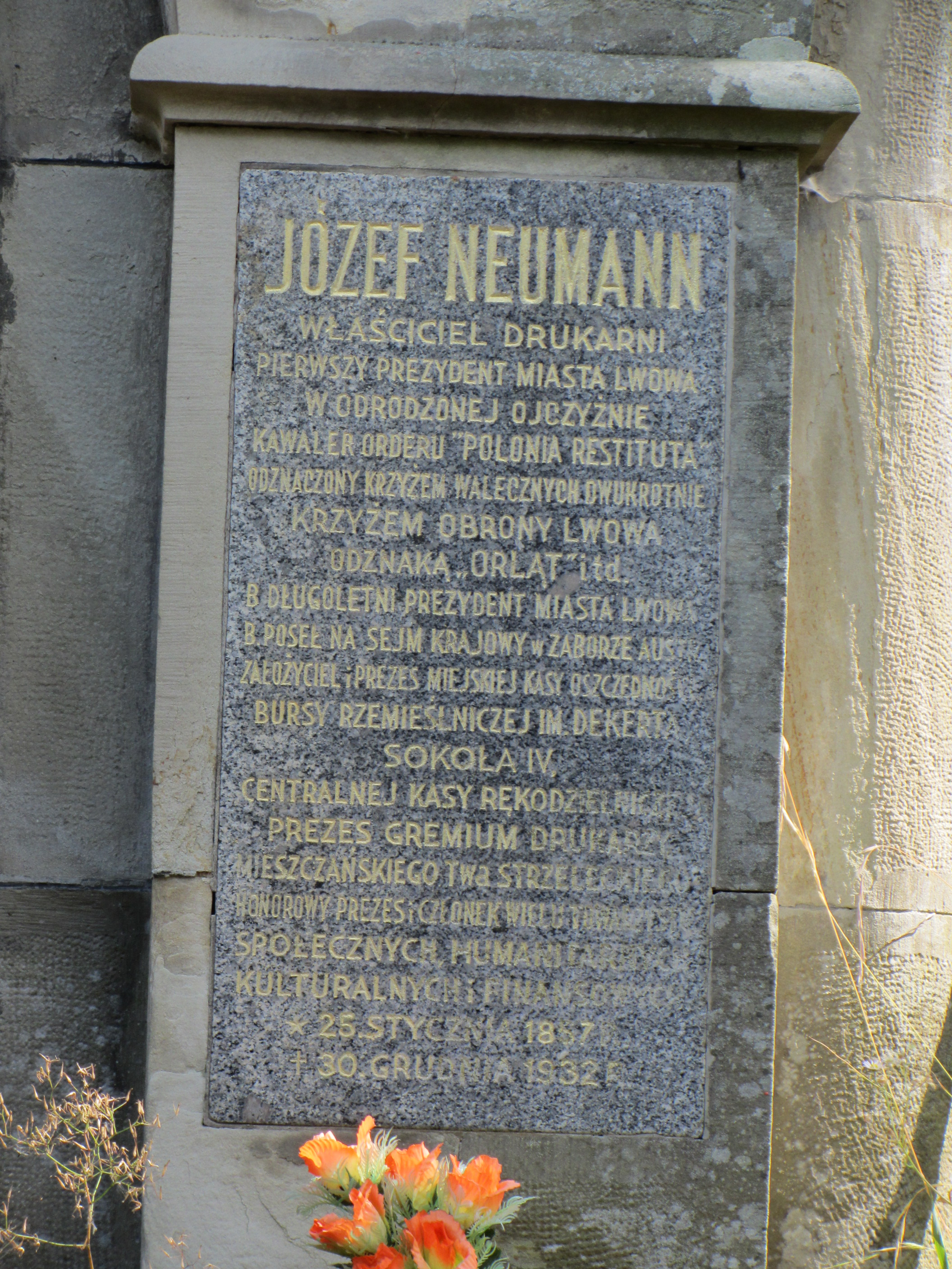 tablica nagrobna na Cmentarzu Łyczakowskim we Lwowie